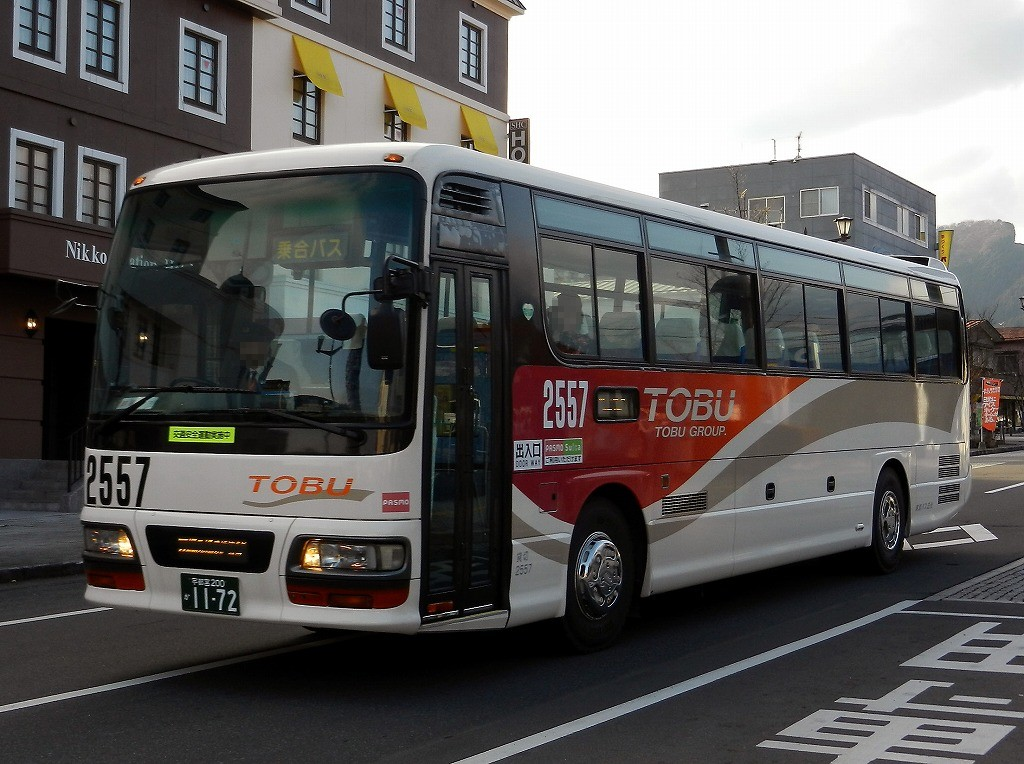 Tobu bus Nikko Isuzu Gala2000 (KL-LV774R2)